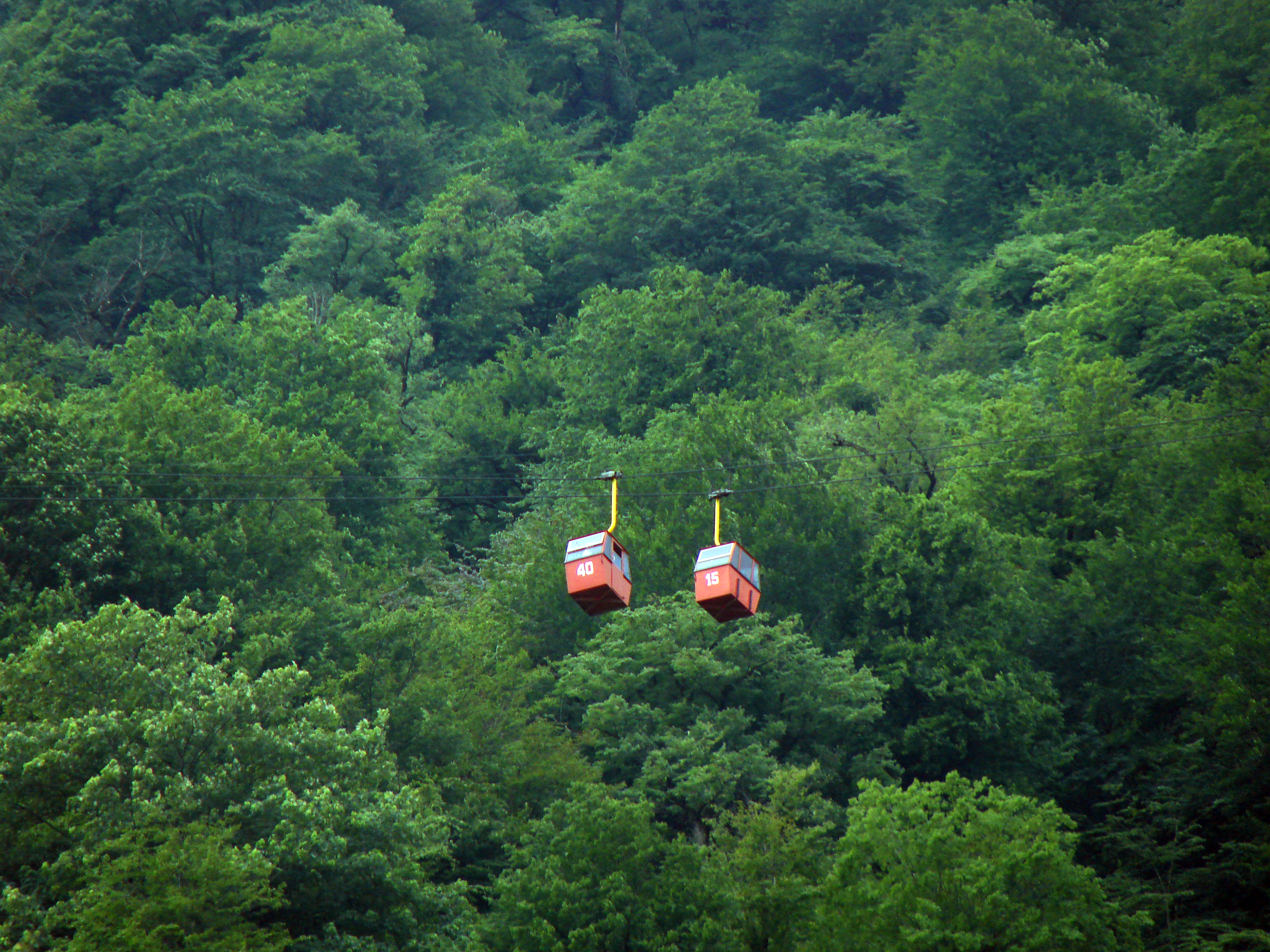 Shahrak-e Namak Abrud is a touristic village and has an aerial tramway which starts at the sea level near the shores of the Caspian Sea and ends on the top of the Alborz heights crossing dense forest area of northern Iran. There are numerous villa cities around it which form a vacation region for the people of Tehran.